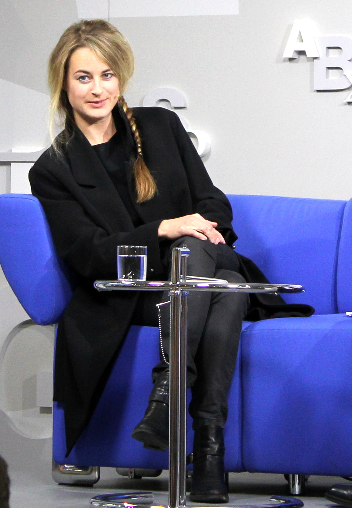 Teresa Präauer, Frankfurt Book Fair 2012